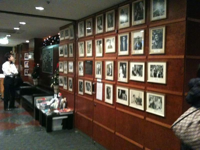 Lobby floor of FCCJ